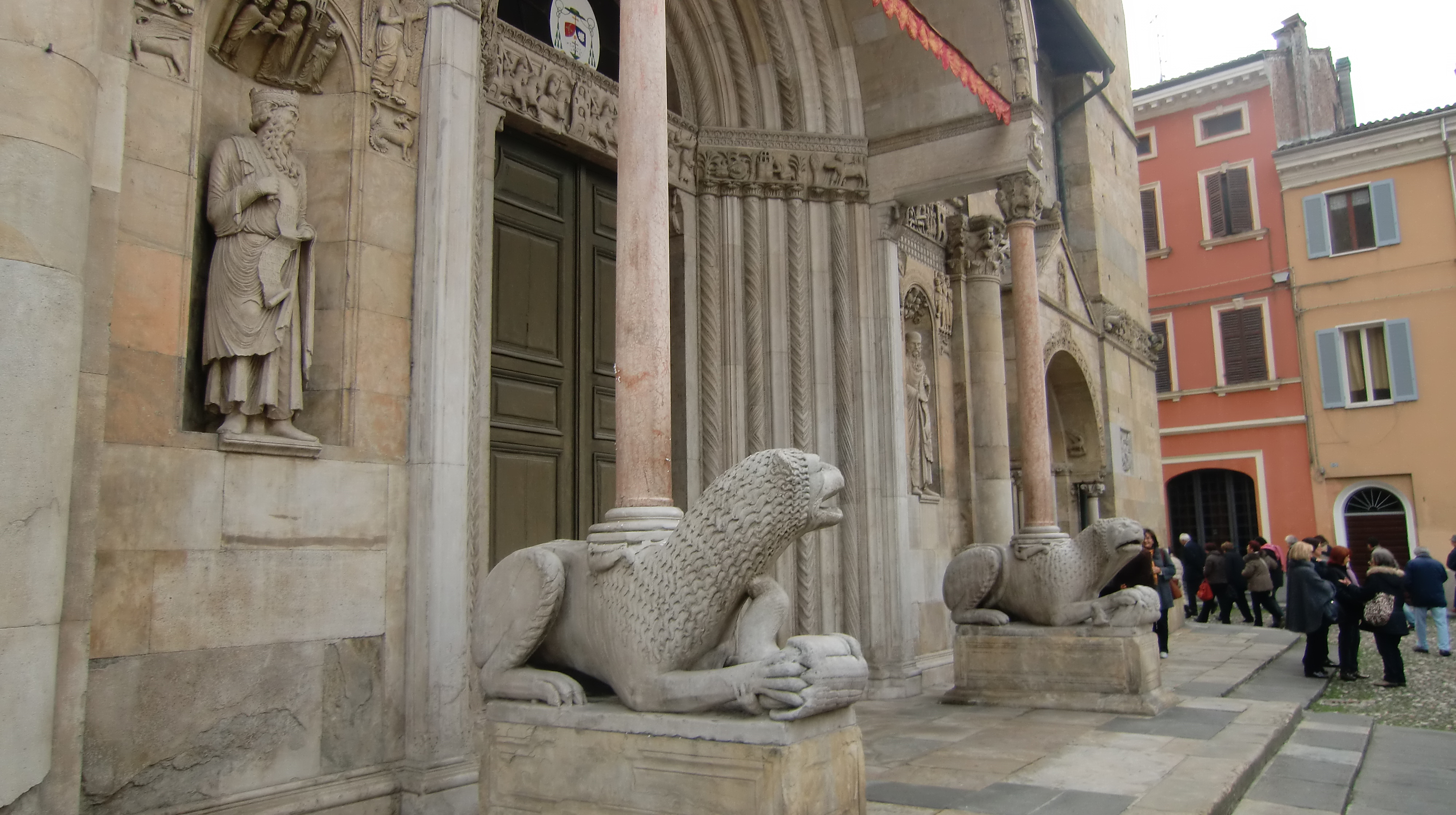 Duomo di Fidenza, central porch, end of XII century - beginning of XIII century